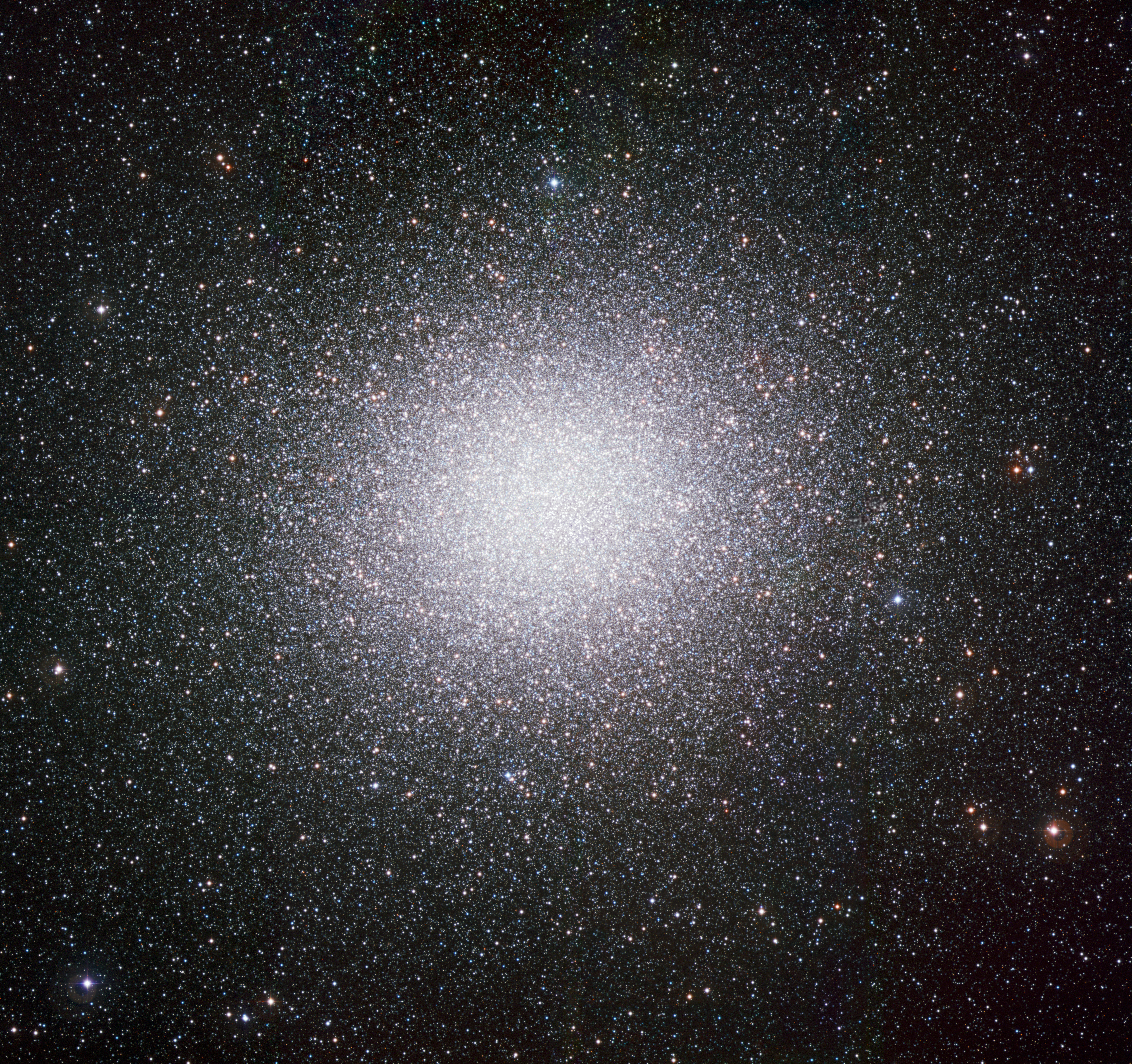 The globular cluster Omega Centauri — with as many as ten million stars — is seen in all its splendour in this image captured with the WFI camera from ESO's La Silla Observatory. The image shows only the central part of the cluster — about the size of the full moon on the sky (half a degree). North is up, East is to the left. This colour image is a composite of B, V and I filtered images. Note that because WFI is equipped with a mosaic detector, there are two small gaps in the image which were filled with lower quality data from the Digitized Sky Survey. Coordinates Position (RA): 13 26 47.32 Position (Dec): -47° 28' 46.86" Field of view: 31.88 x 29.99 arcminutes Orientation: North is 0.0° right of vertical Colours & filters Band Wavelength Telescope Infrared B 451 nm MPG/ESO 2.2-metre telescope WFI Optical V 539 nm MPG/ESO 2.2-metre telescope WFI Optical I 783 nm MPG/ESO 2.2-metre telescope WFI